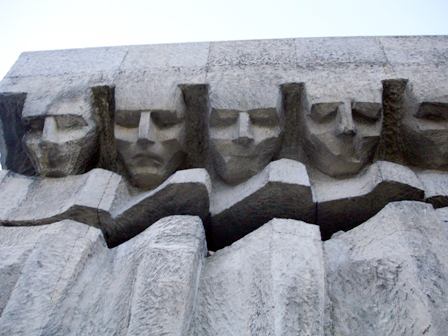 Close up picture of the Plaszow KL Memorial.